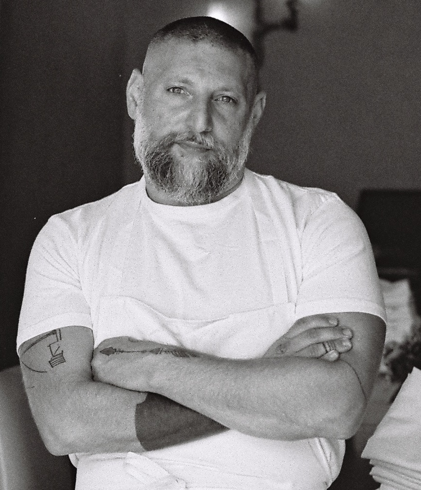 Assaf Granit photographed by Merav Ben Louou